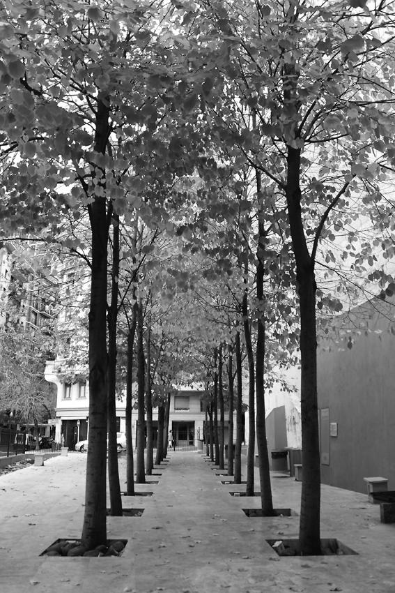 Memorial to the victims of the en:1992 attack on Israeli embassy in Buenos Aires.